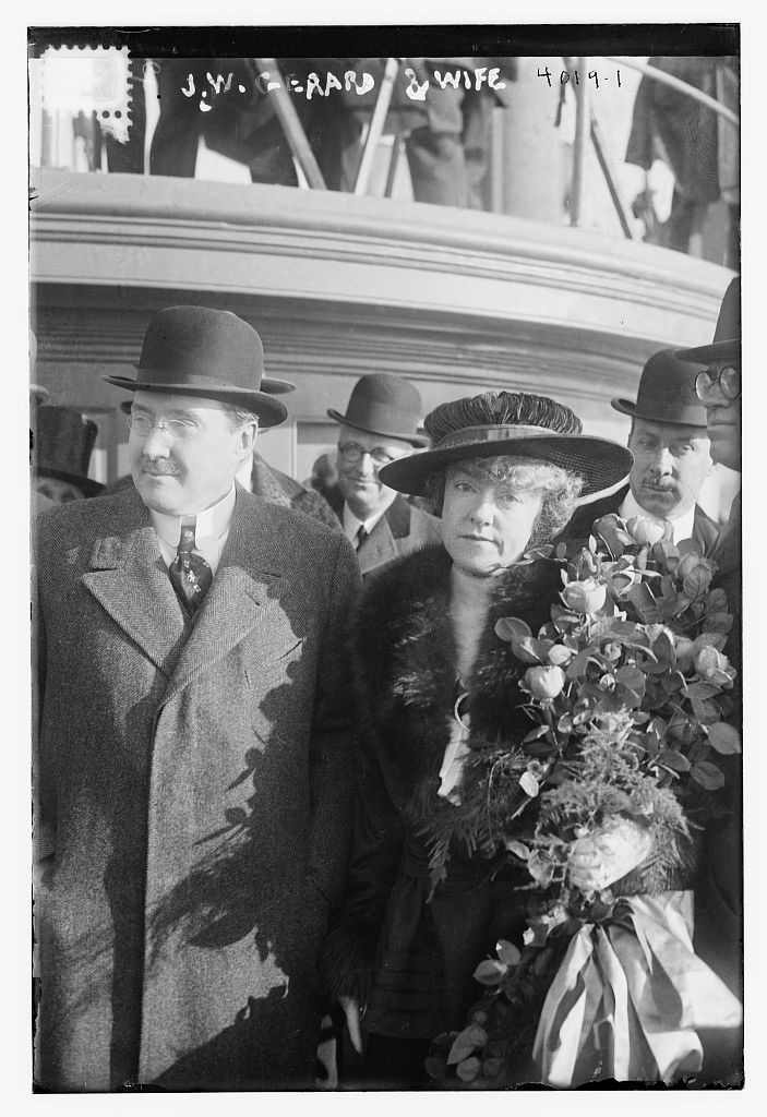 James Watson Gerard in 1916 with his wife, Mary Augusta Daly Gerard